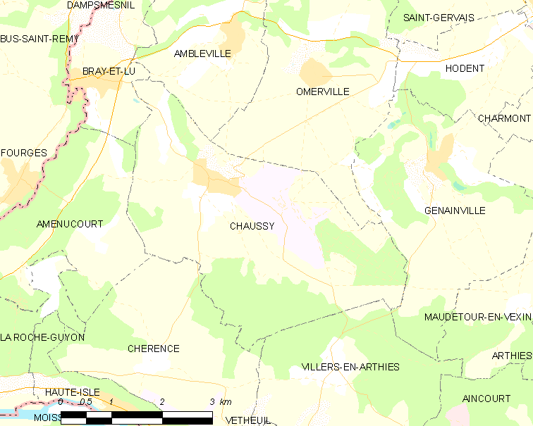 Map of French municipality Chaussy